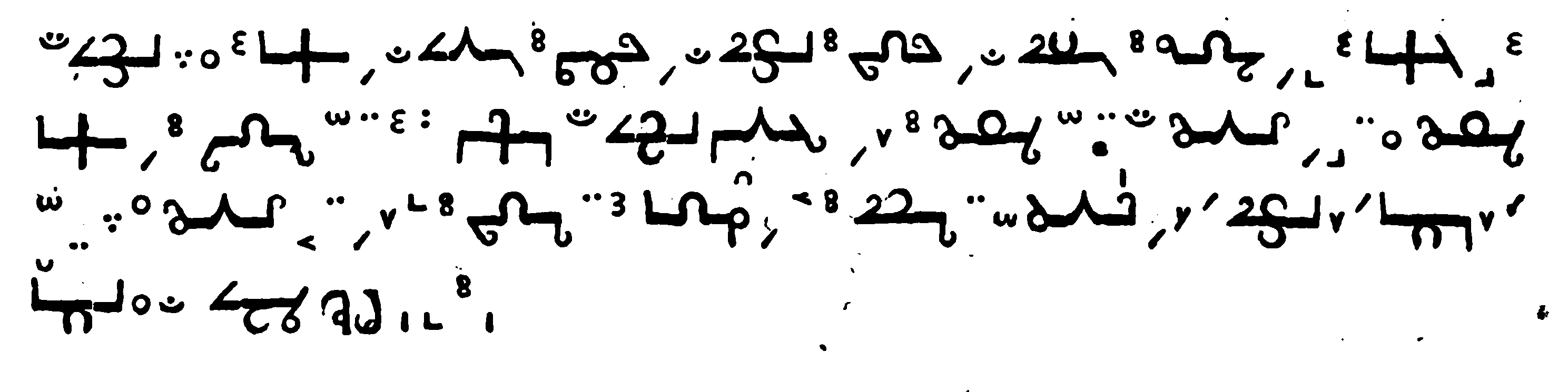 The Lord's Prayer in John Wilkins's Real Character as presented in his book An Essay Towards A Real Charater And A Philosophical Language (1668)